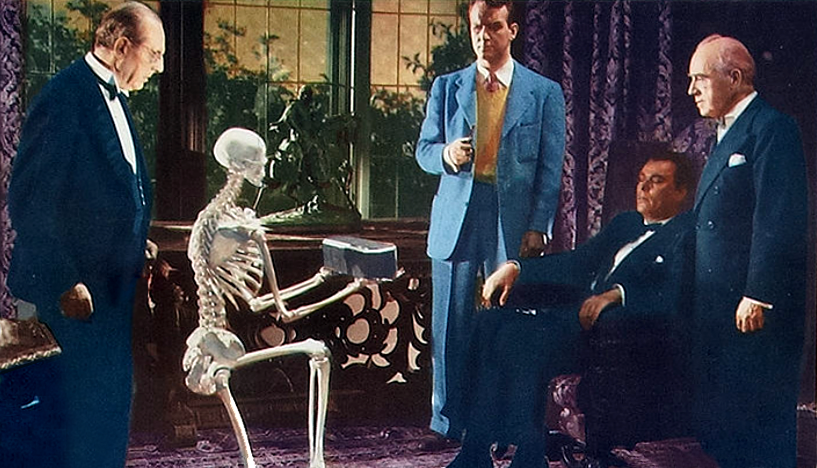 Cropped and edited lobby card for the 1942 Universal horror movie, Night Monster. This image is assumed to be in the public domain as no copyright notice is in evidence.